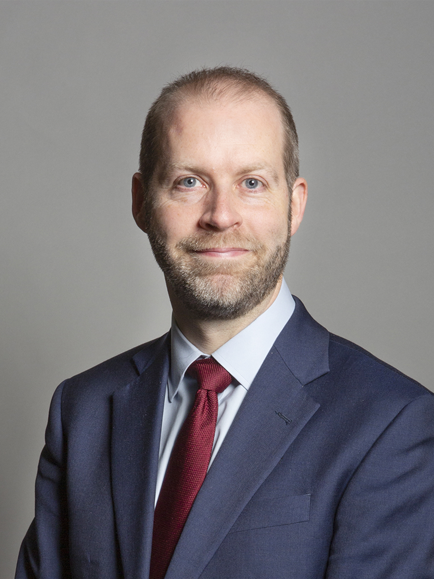 Official portrait of Jonathan Reynolds MP 3×4 portrait of Jonathan Reynolds